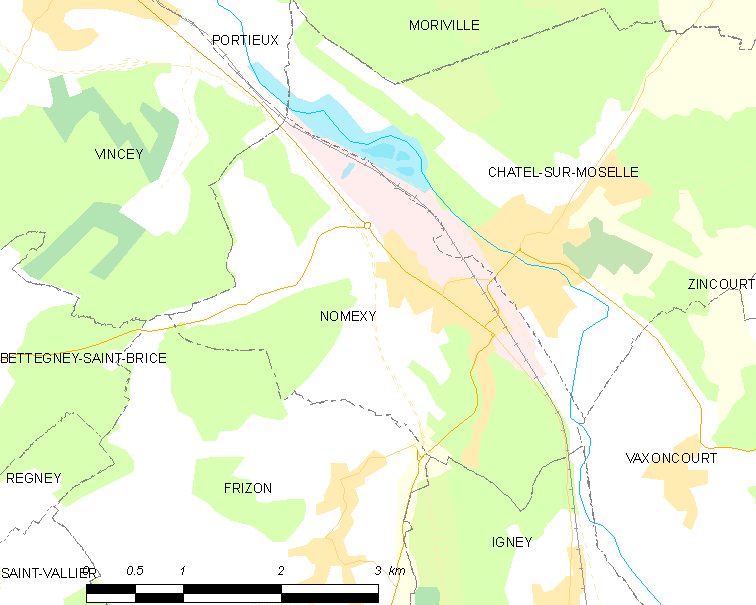 Map of French municipality Nomexy